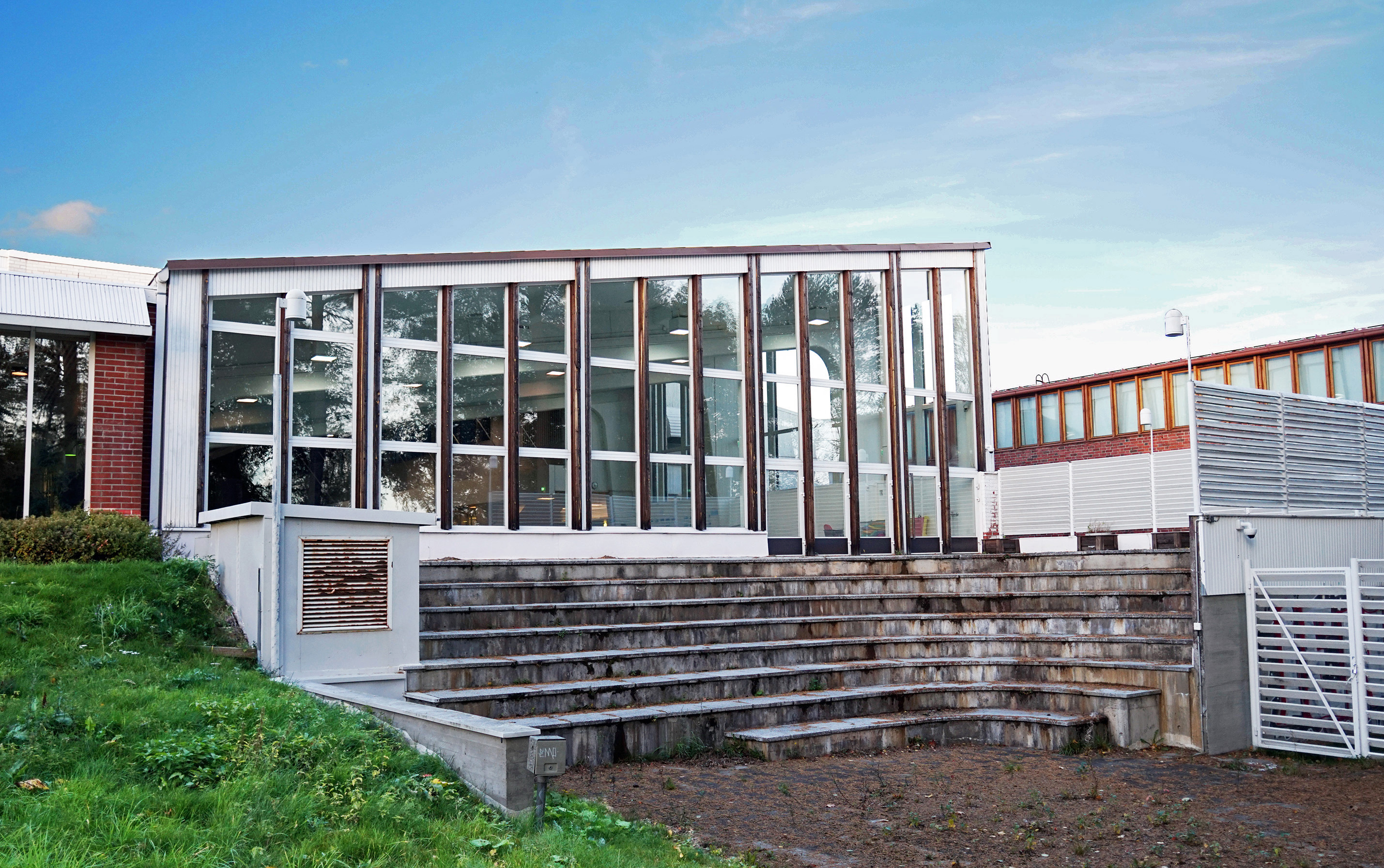 Windows of the AaltoAlvari swimming hall in Jyväskylä. This is a photo of a monument in Finland identified by the ID 'AaltoAlvari' (Q5547490)